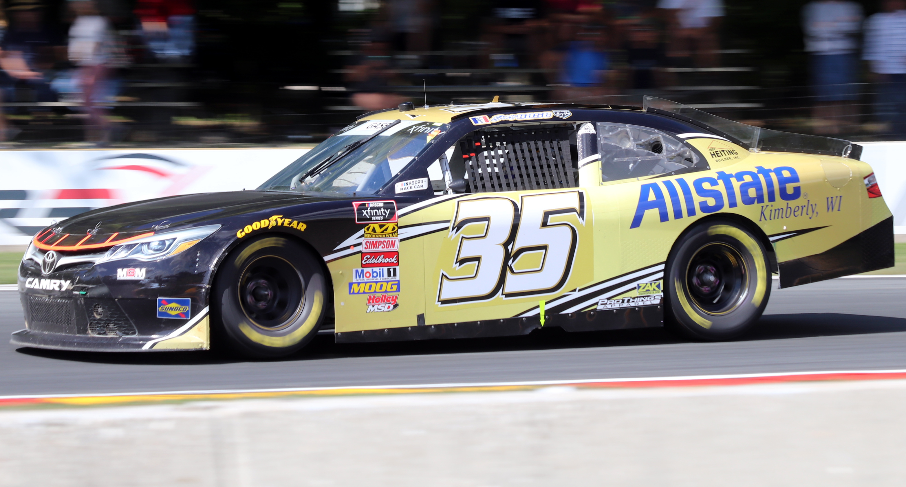 The #35 Toyota Camry of Joey Gase at the NASCAR CTECH 180.